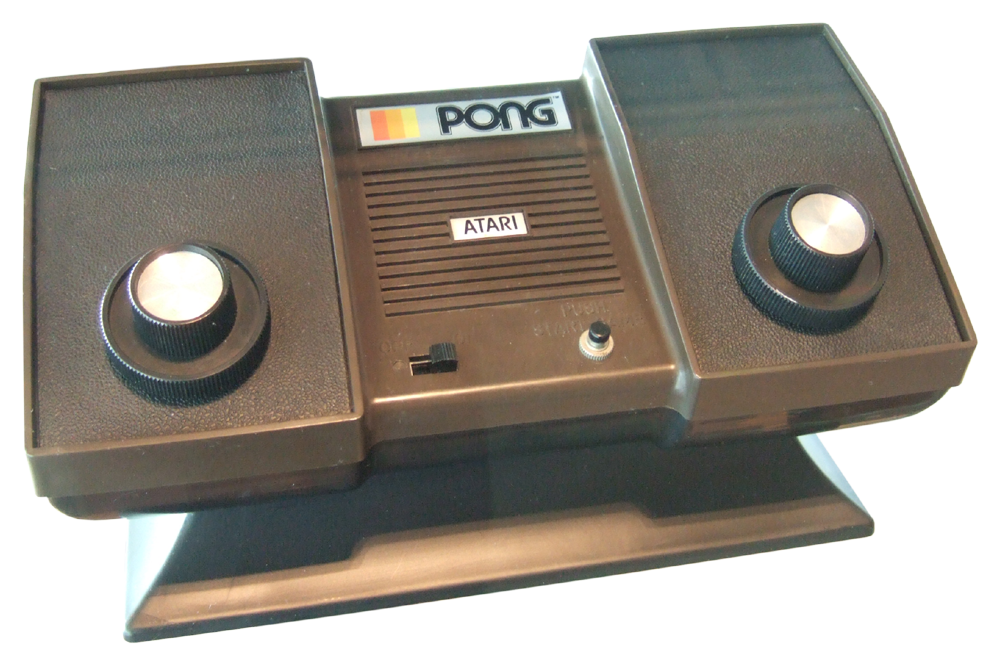 Atari Pong home console (1976)- It's the first model: C-100. It can play only one game.